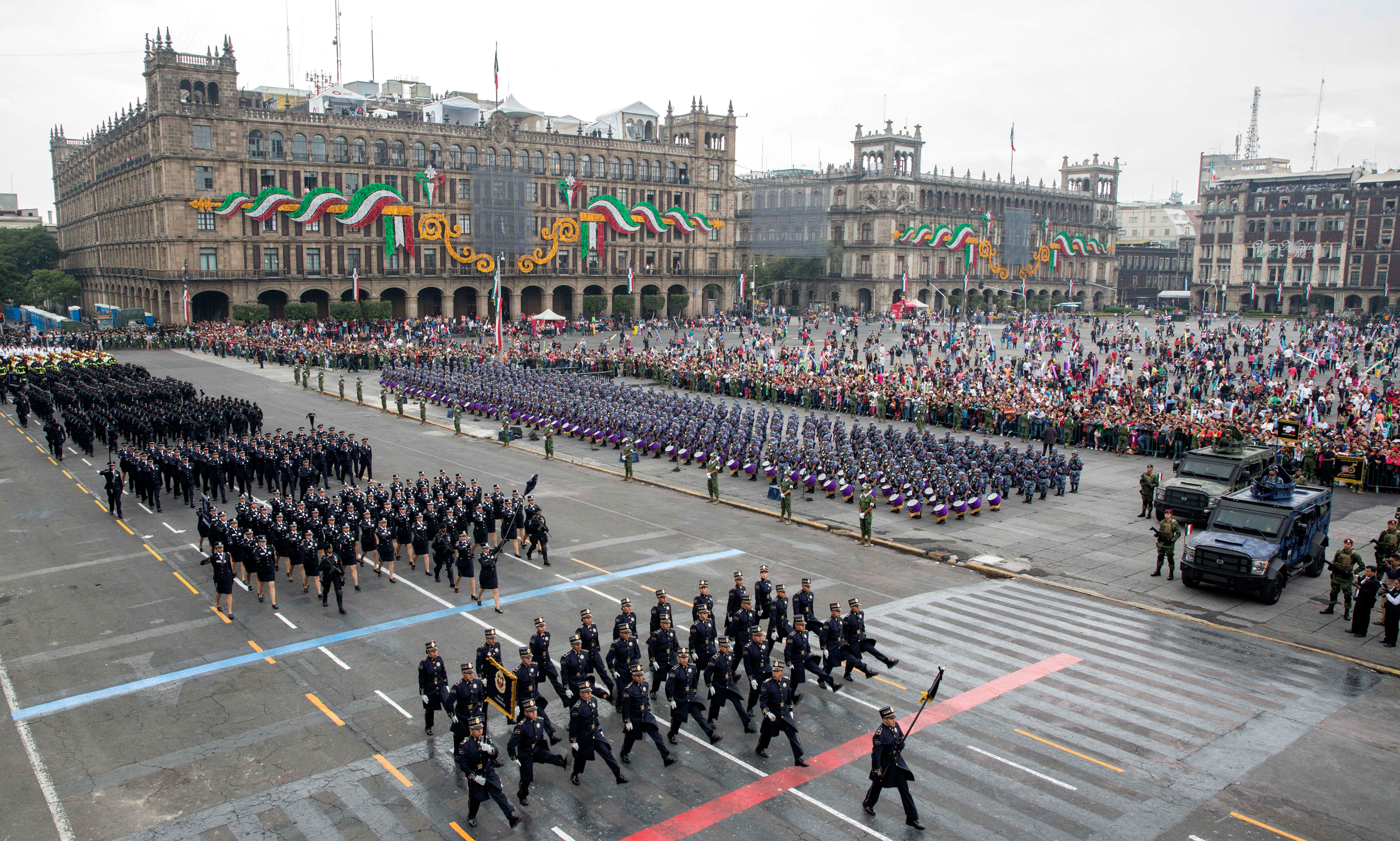 Desfile Militar Conmemorativo del CCV Aniversario del Inicio de la Independencia de México. Ciudad de México. 16 de septiembre de 2015.